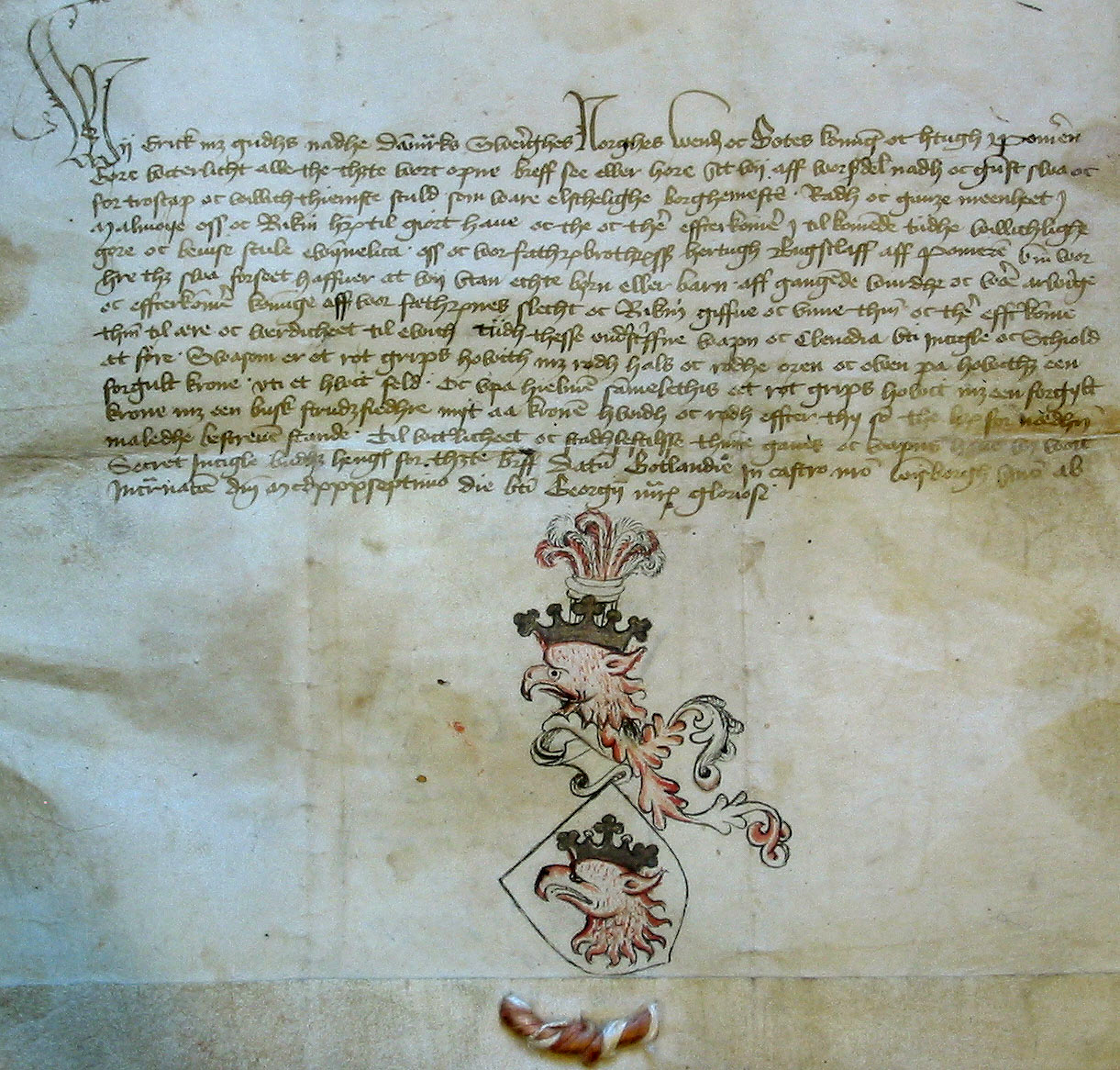 The letter of arms given to the town of Malmo by the king Erik of Pomerania 1437.